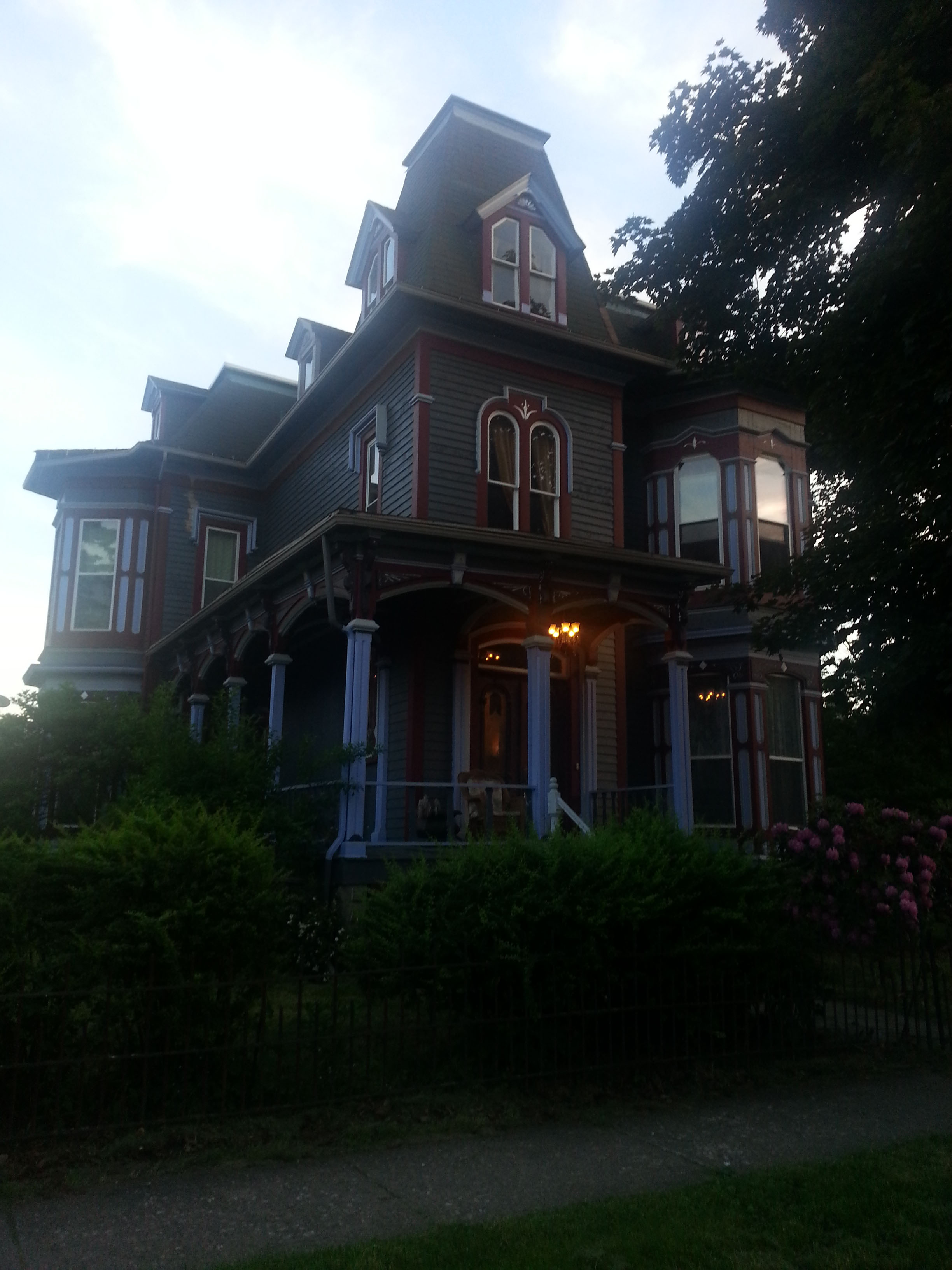 Front of the house as seen from State Street. September 2016.